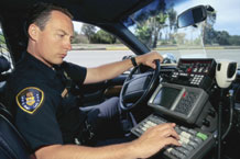 Modern Police car in the United States